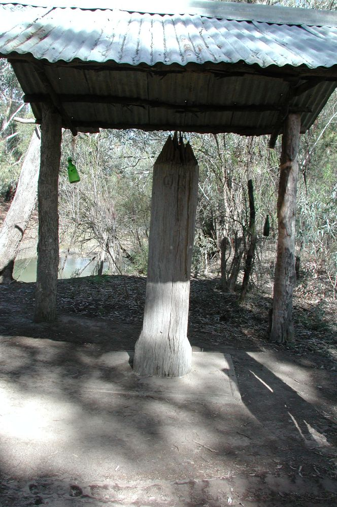 Cameron's 1 Ton Survey Post (2007)